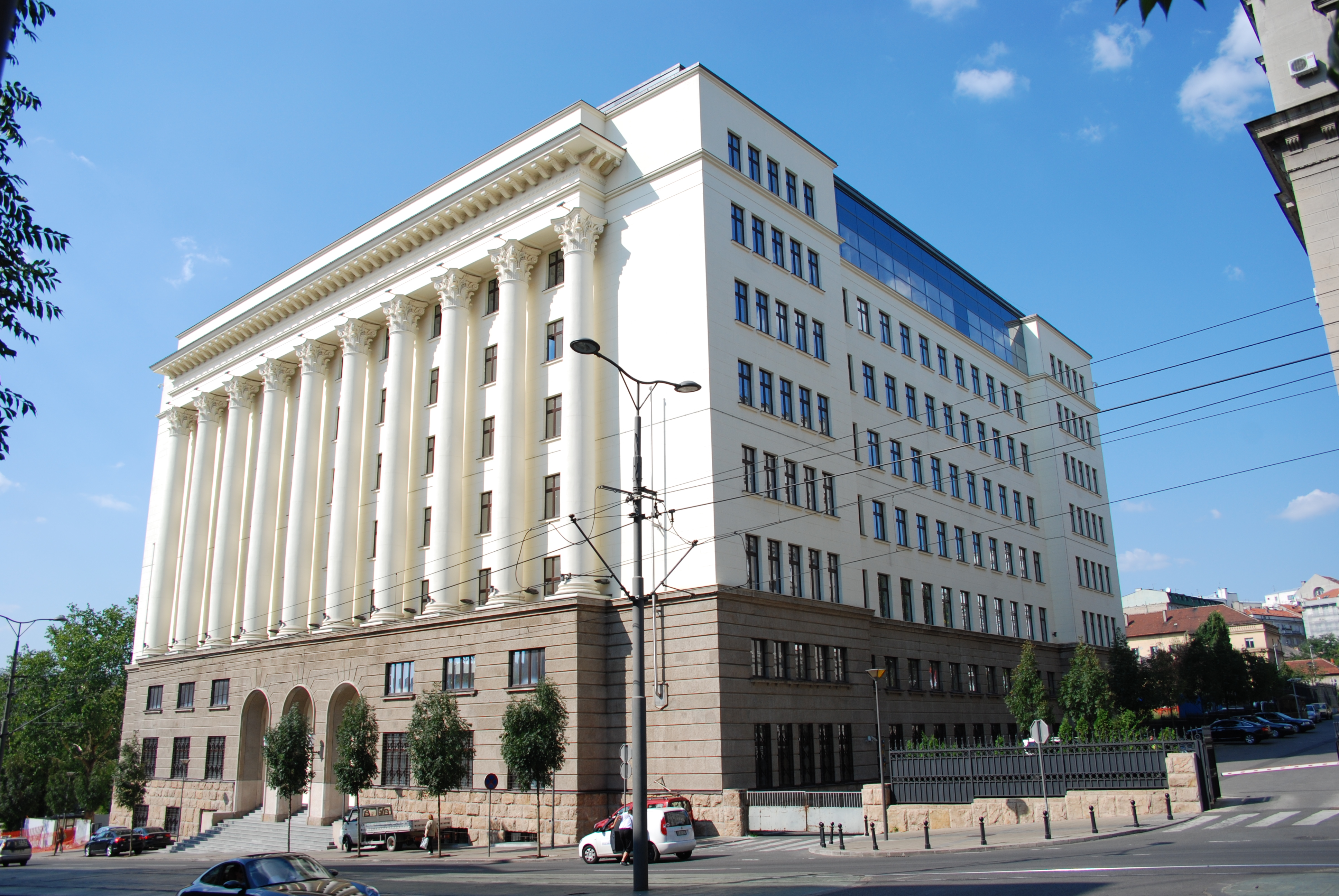 Belgrade, Surpeme Court